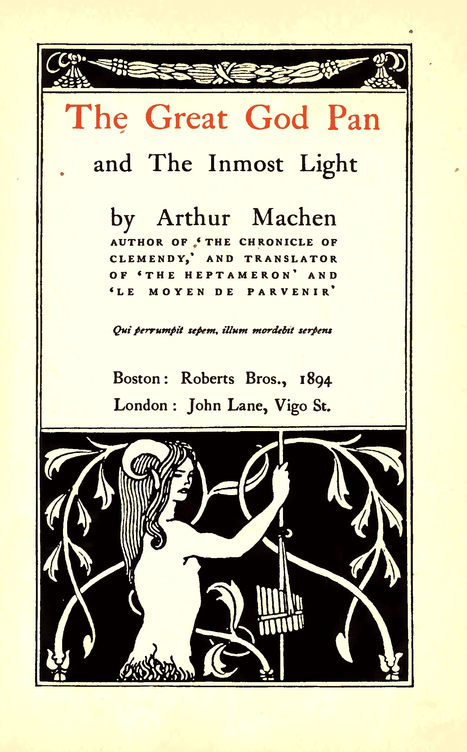 Scan of Title page from the book "The great god Pan" (Roberts Bros, Boston, 1894) by Arthur Machen. Cover illustration by Aubrey Beardsley.